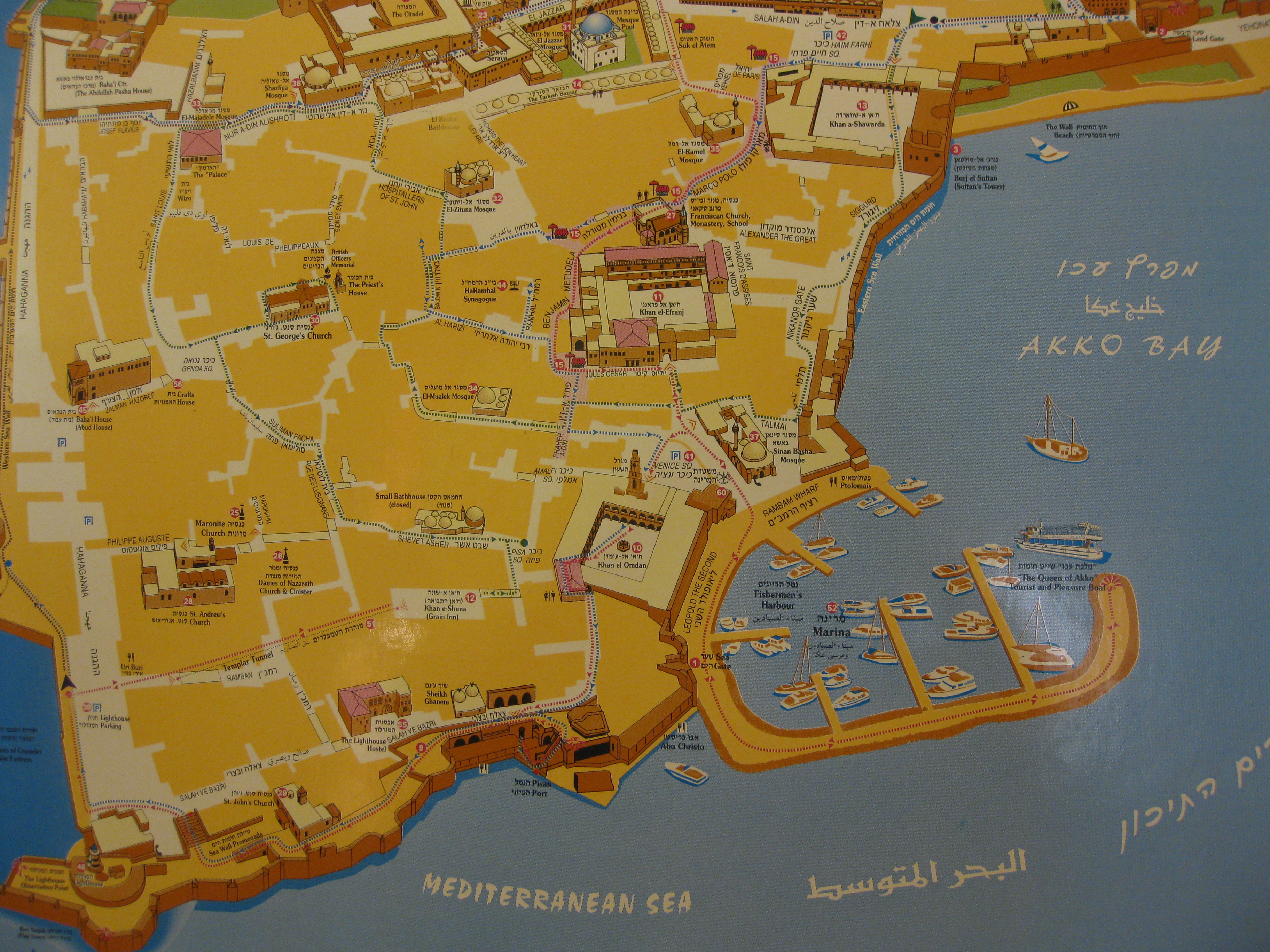 Acco (Acre, Akko) - Map of Acco. Permenant sign on display in the Old City עכו